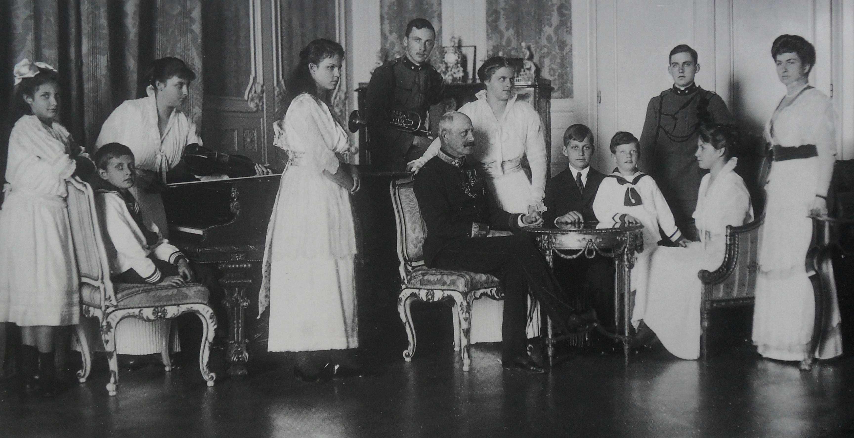 Archduke Leopold Salvador of Austria with his wife Infanta Blanca of Spain and their ten children. Vienna 1915.